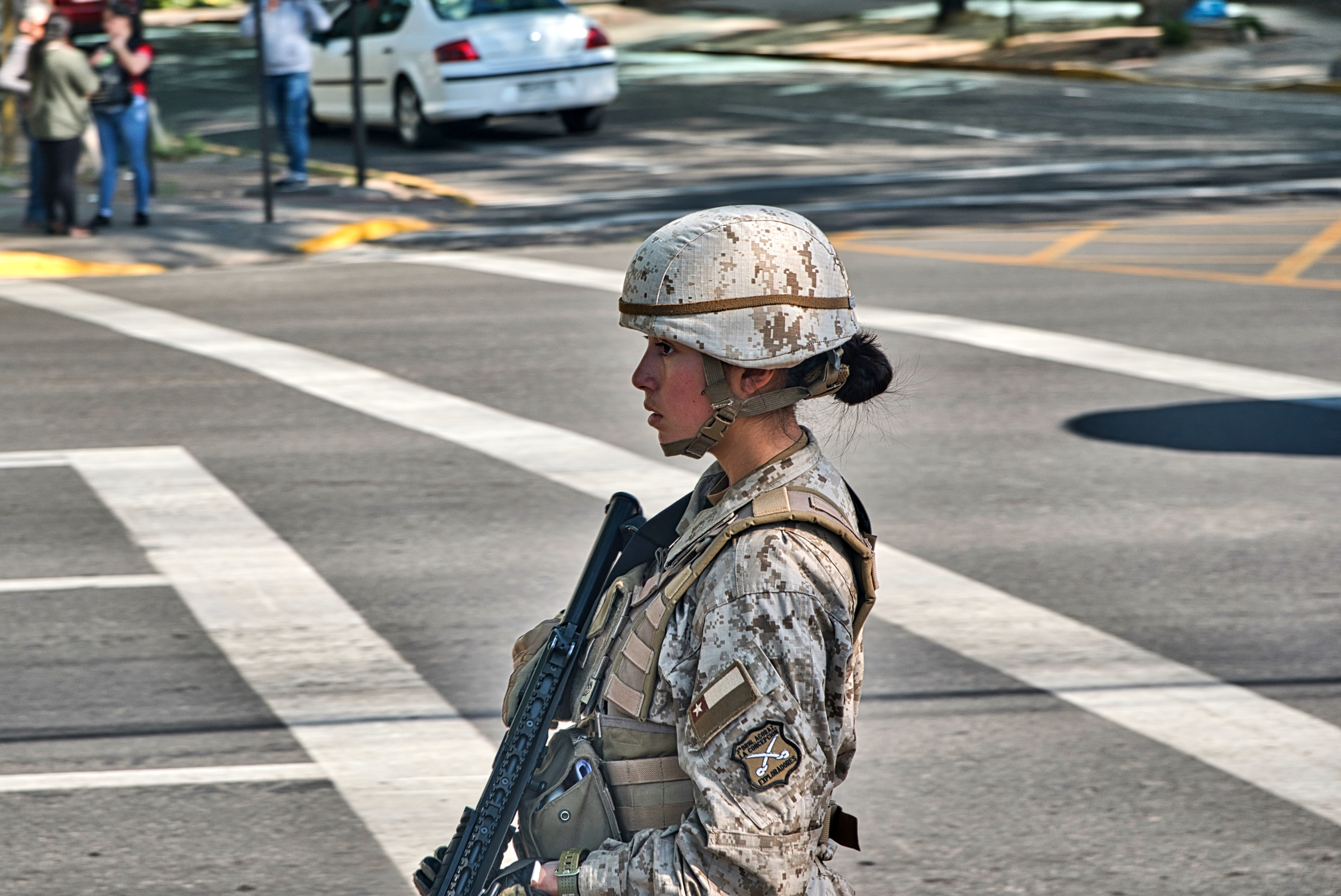 Perfil de militar durante las protestas en Santiago.